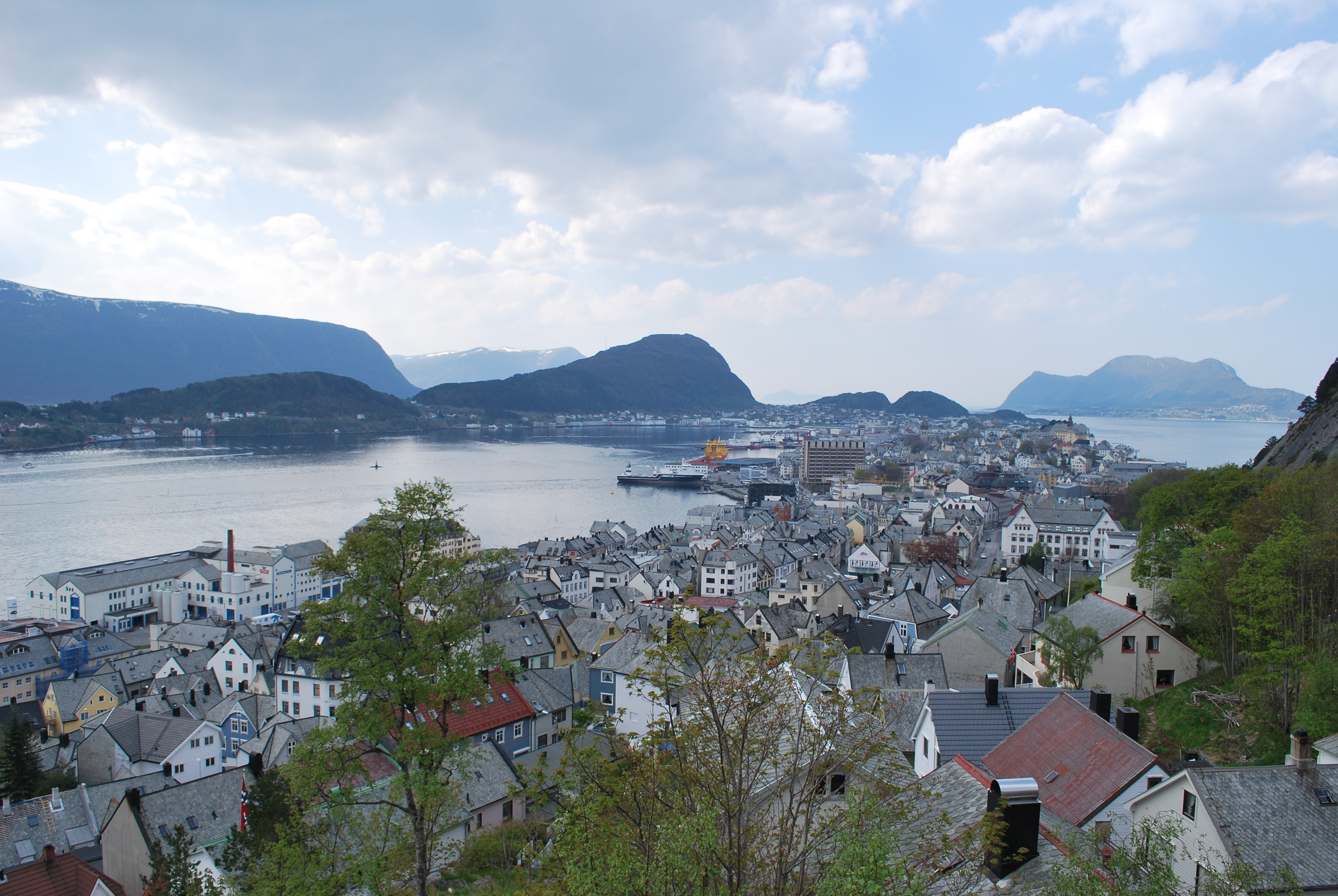 Ålesund: South side.